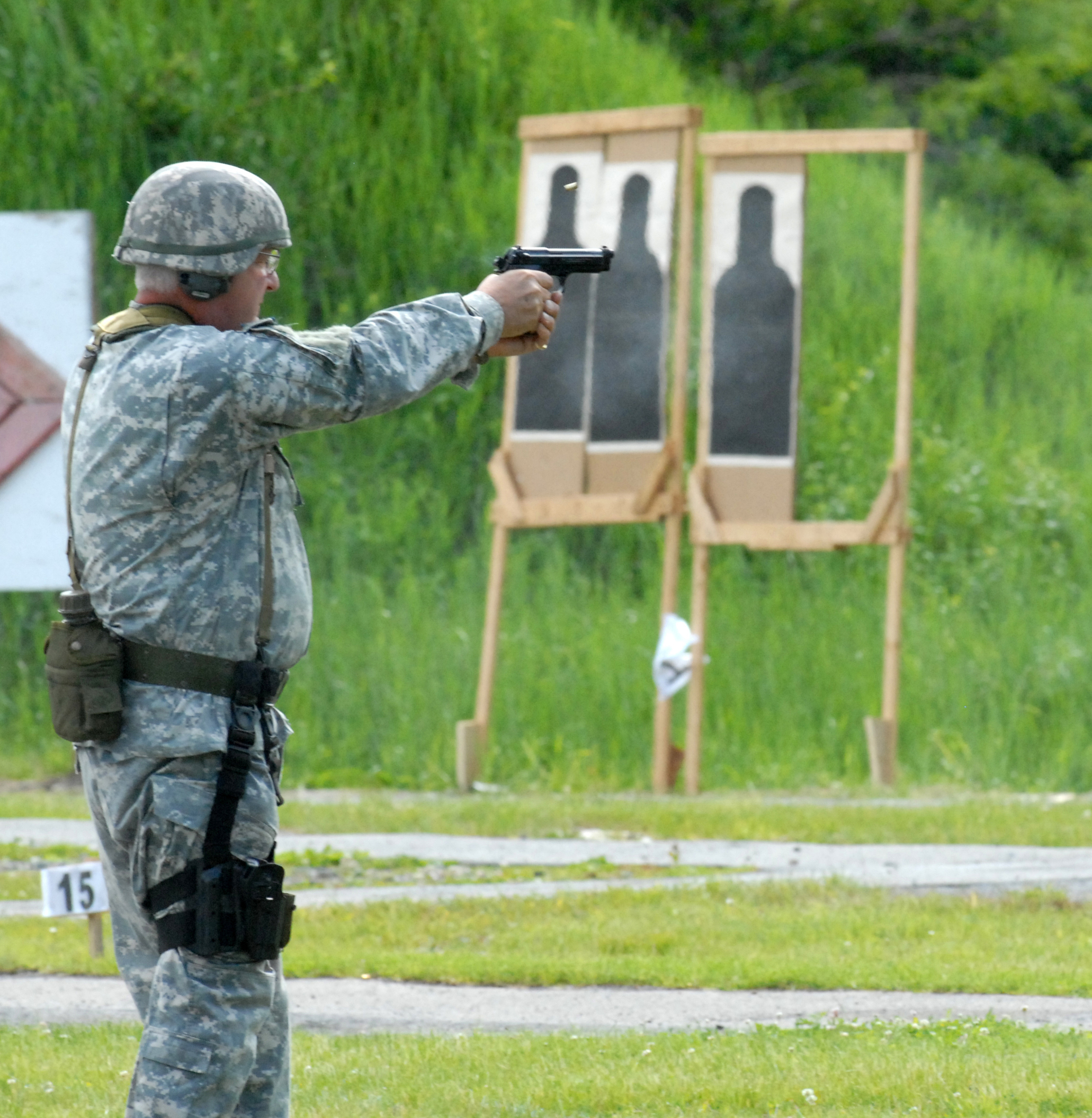 New York Guard Staff Sgt. Joseph Dee fires an M9 pistol during the 35th Annual "TAG (The Adjutant General) Match at Camp Smith on May 31. Dee and about 125 New York National Guard members are taking part in the match, testing their marksmanship skills with weapons like the M16 rifle, M9 pistol and M249 light machine gun. Along with 25 TAG matches, Dee has competed on the state, national and international level, taking part in shooting matches in Canada and England. He's double-distinguished in rifle and pistol, and has earned the National Guard Chief's 50 Marksmanship Badge three times: Once in the rifle category and twice in the sniper category.